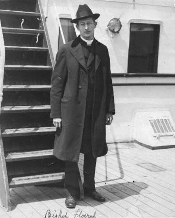 Portrait of Bishop John A. Floersh of Louisville, Kentucky, wearing a long coat, suit and hat, standing on the deck of the S.S. Conte Rosso. Floersh served as Bishop, then Archbishop, of Louisville from 1924-1967. ULPA 1994.18.1902, Herald Post Collection, 1994.18, Photographic Archives, University of Louisville, Louisville, Kentucky.